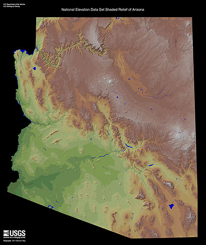 Topographic map of Arizona. Credits From the National Elevation Dataset of the United States Geological Survey (USGS).